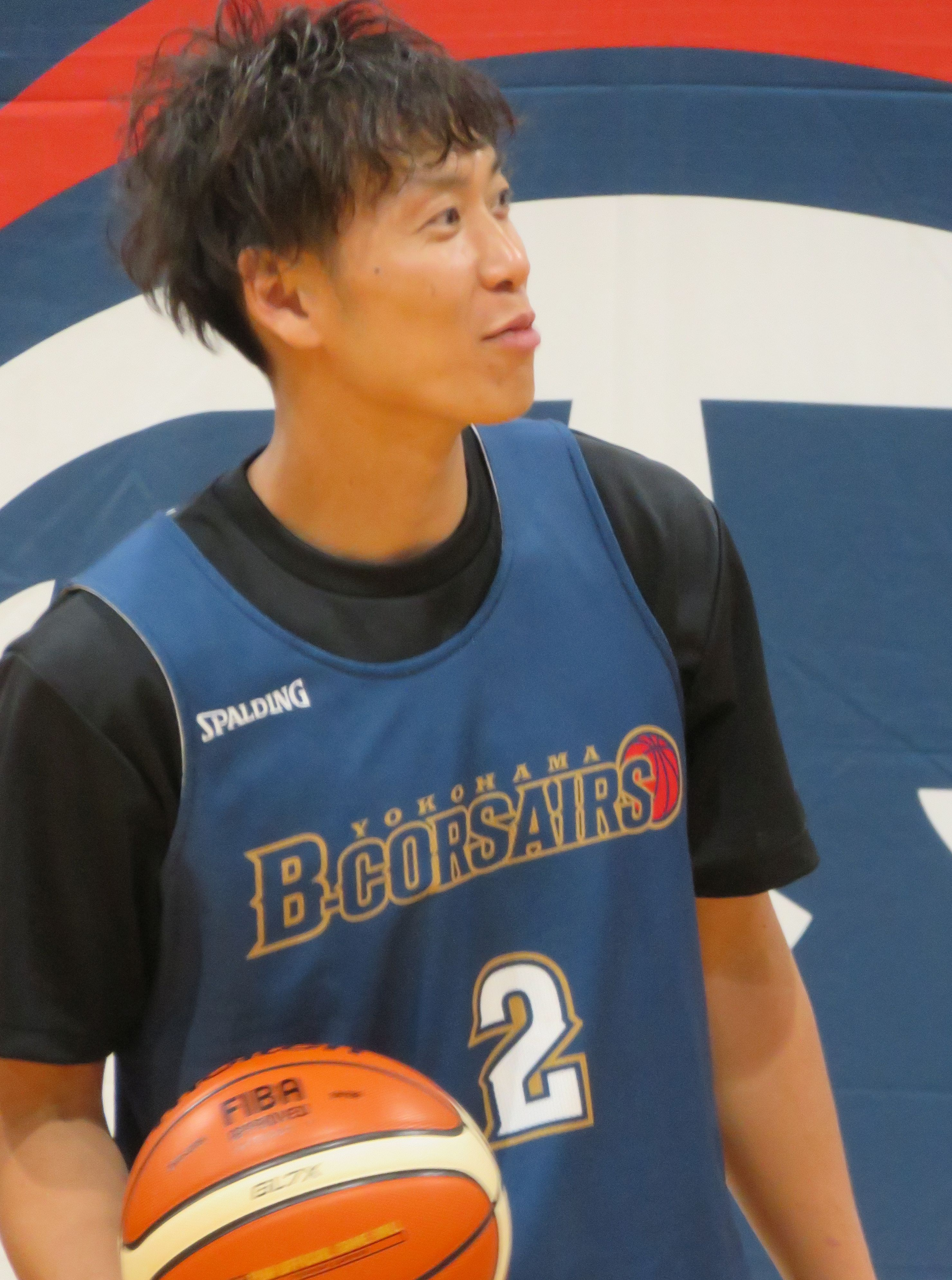 Yokohama B-Corsairs Fan Event 2019-5-19